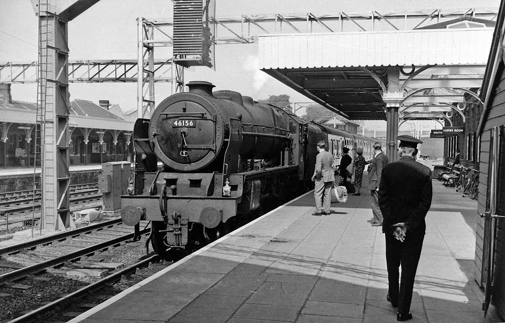 Up WCML express calling at Lichfield Trent Valley (Low Level) Station. View NW, towards Stafford, Crewe etc. on the West Coast Main Line. Rebuilt 'Royal Scot' 7P 4-6-0 No. 46156 'The South Wales Borderer' is heading a Manchester (London Road) to Euston express which stopped here. This was another major station where the Fast lines passed between the platform lines. The line from Birmingham New Street via Walsall to Burton-on-Trent passed overhead (behind the camera) at the High Level Station. (The Station Inspector is prominent on this occasion).